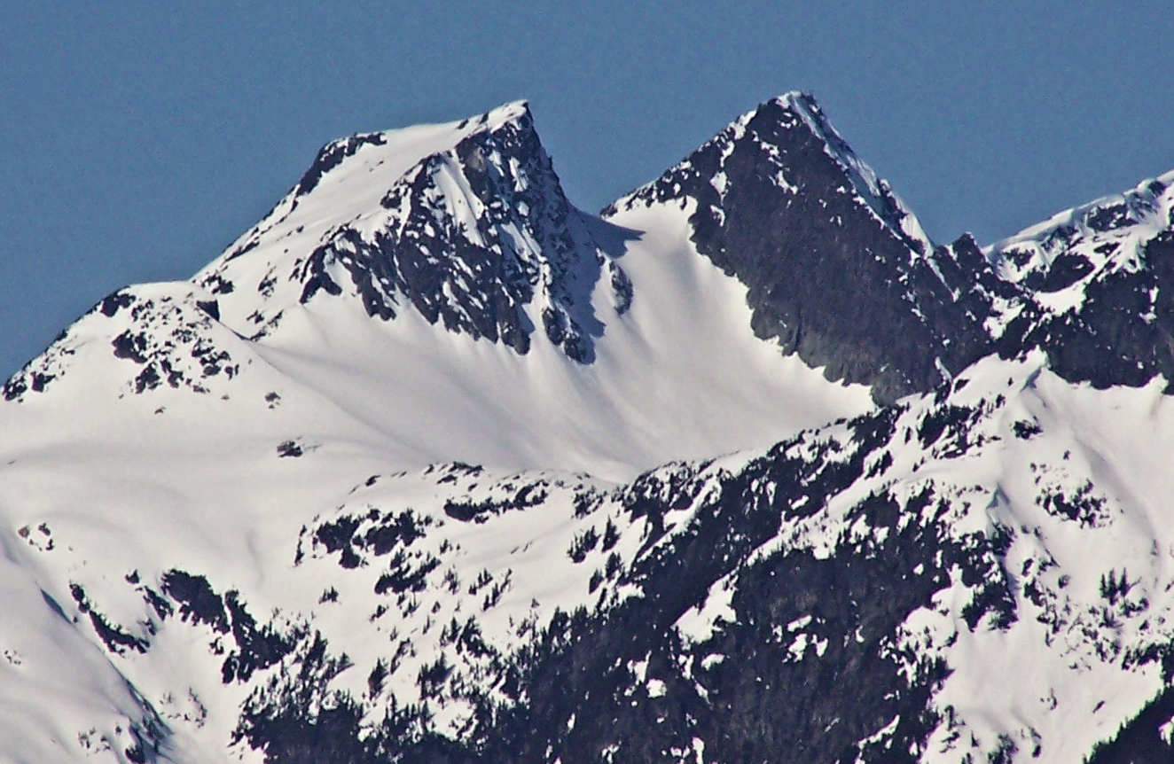 Mts. Pelops and Niobe seen from the Atwell Peak/Garibaldi area